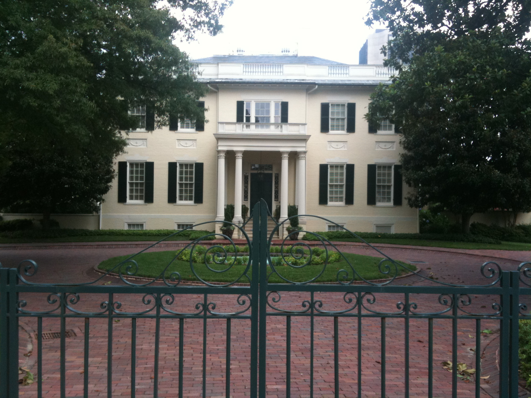 Virginia Executive Mansion 2011-07-10